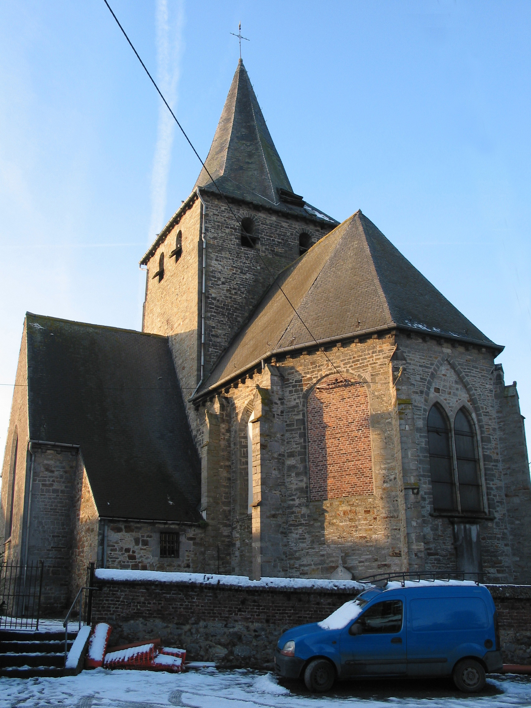 Chaussée-Notre-Dame-Louvignies (Belgium), the Our-Lady church (XIIIth century).